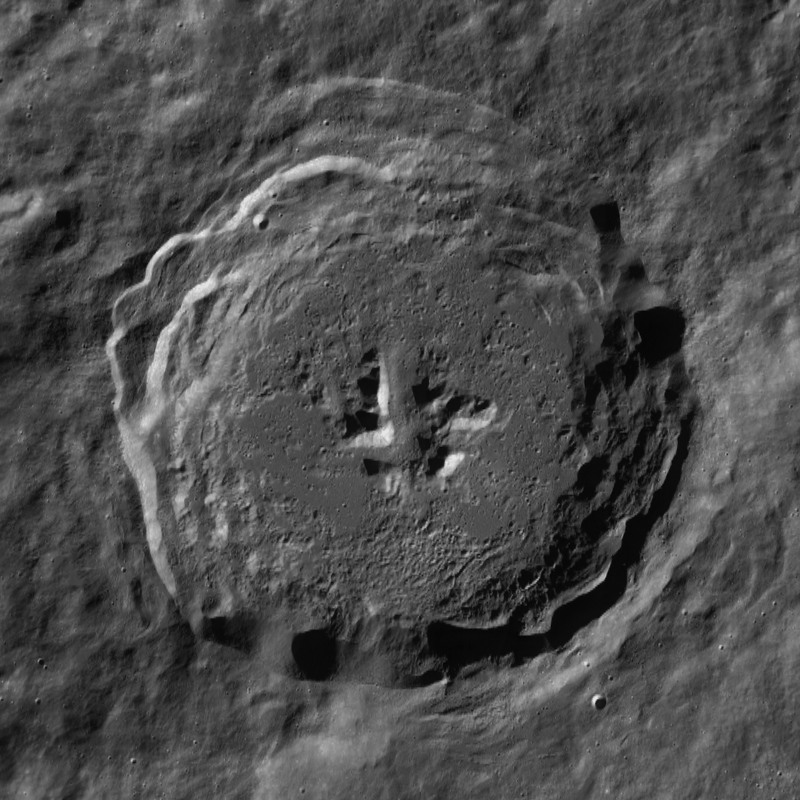 Hayn crater, on the far side of the moon. LRO Wide Angle Camera mosaic.